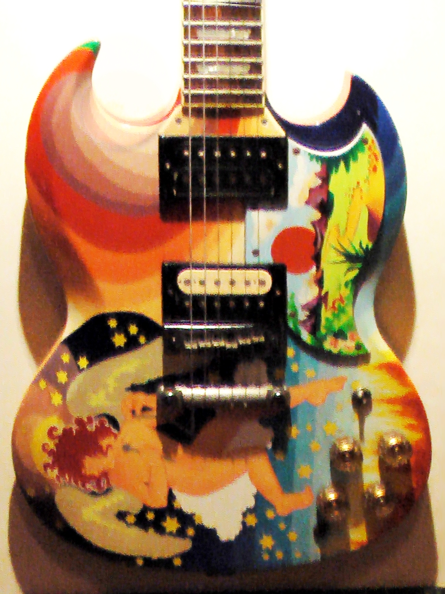 The Fool guitar body (replica), HRC San Antonio